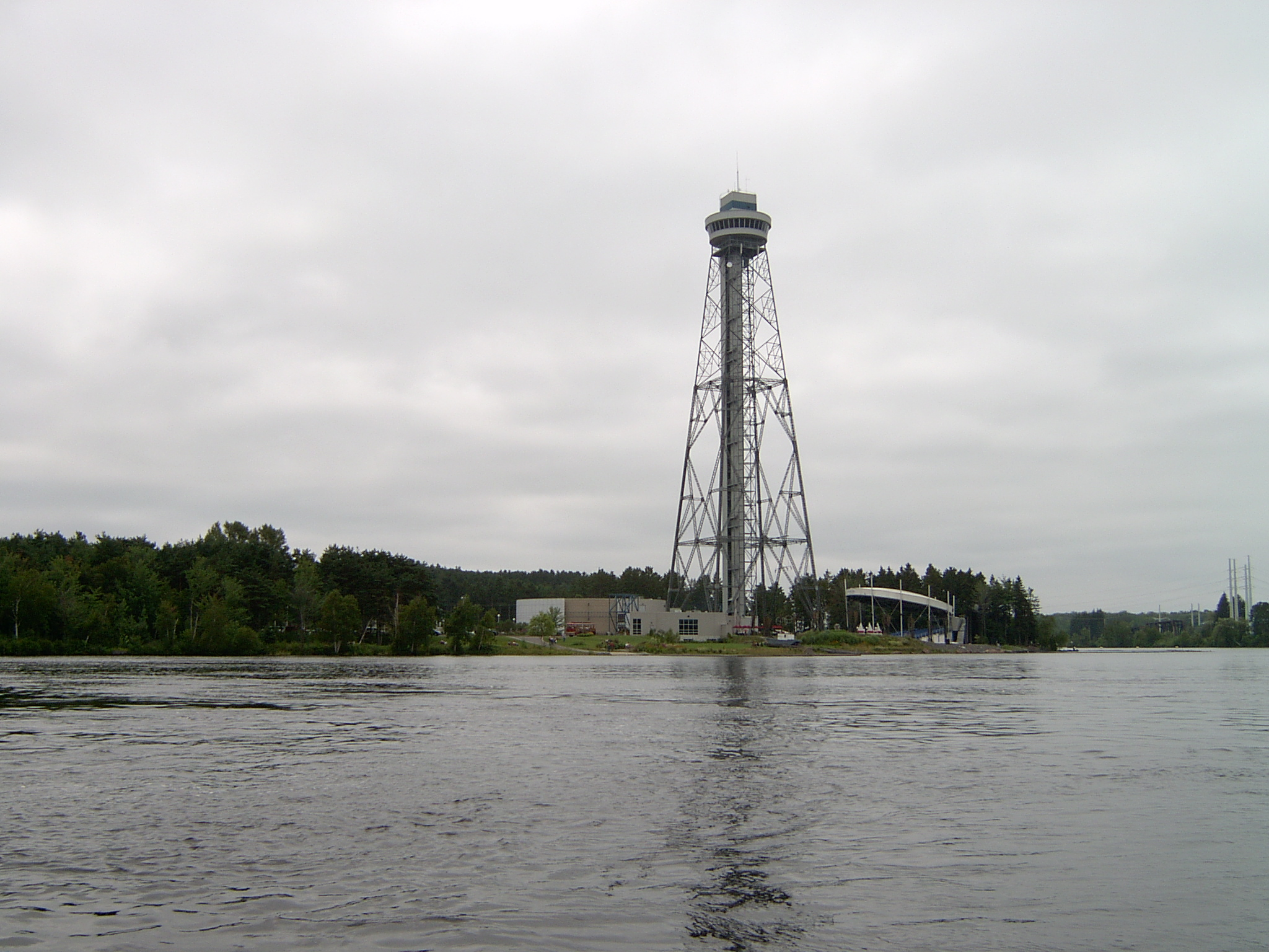 The tower of La Cité de l'Énergie theme park, on Melville island, in the Saint-Maurice river, upriver from the Shawinigan falls, in Shawinigan (Quebec)